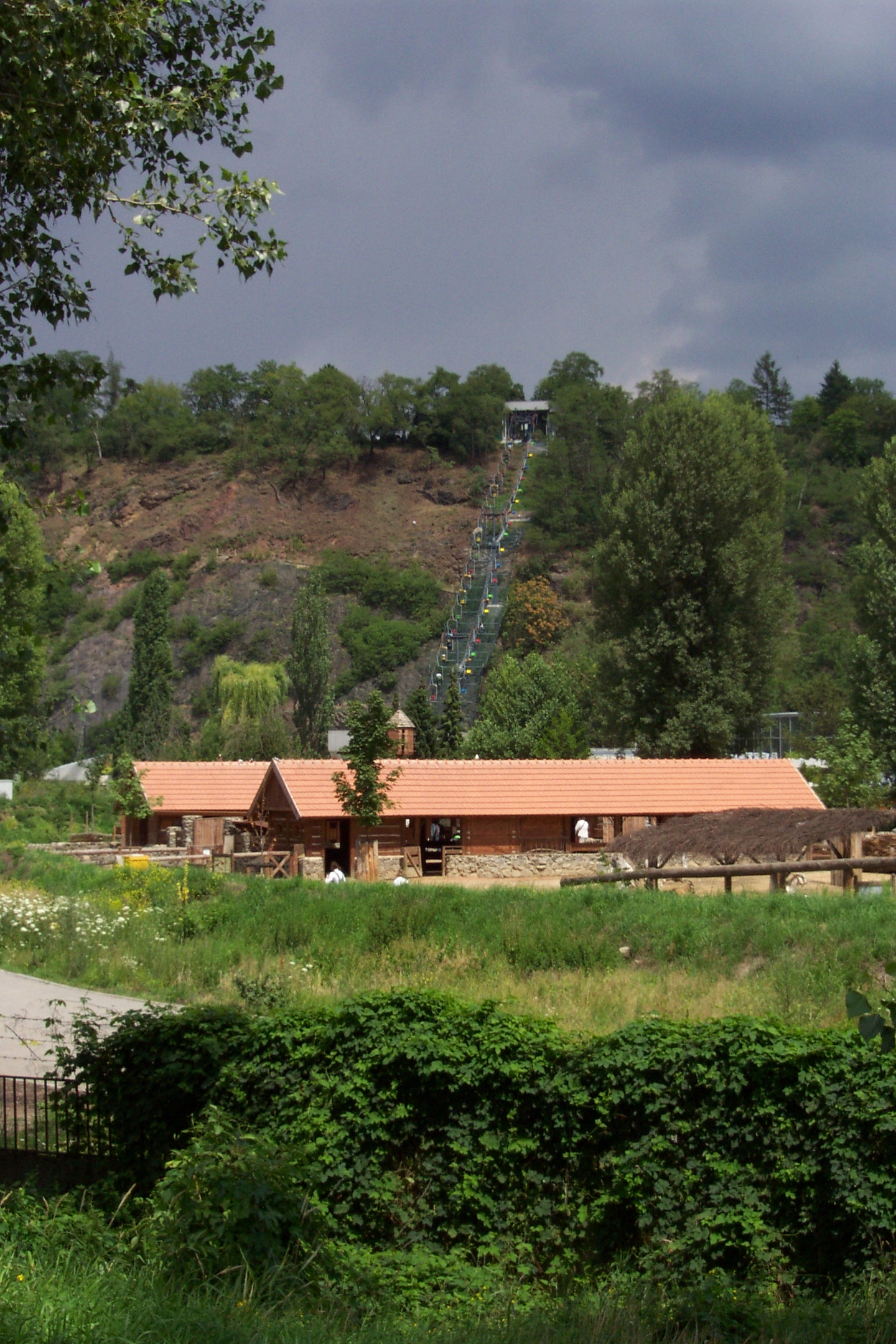 Cable car in Prague ZOO